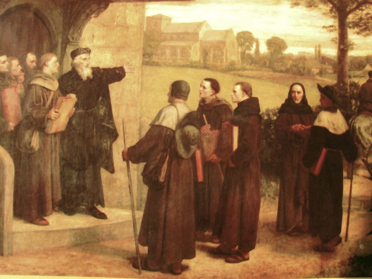 "Wyclif Giving 'The Poor Priests' His Translation of the Bible"